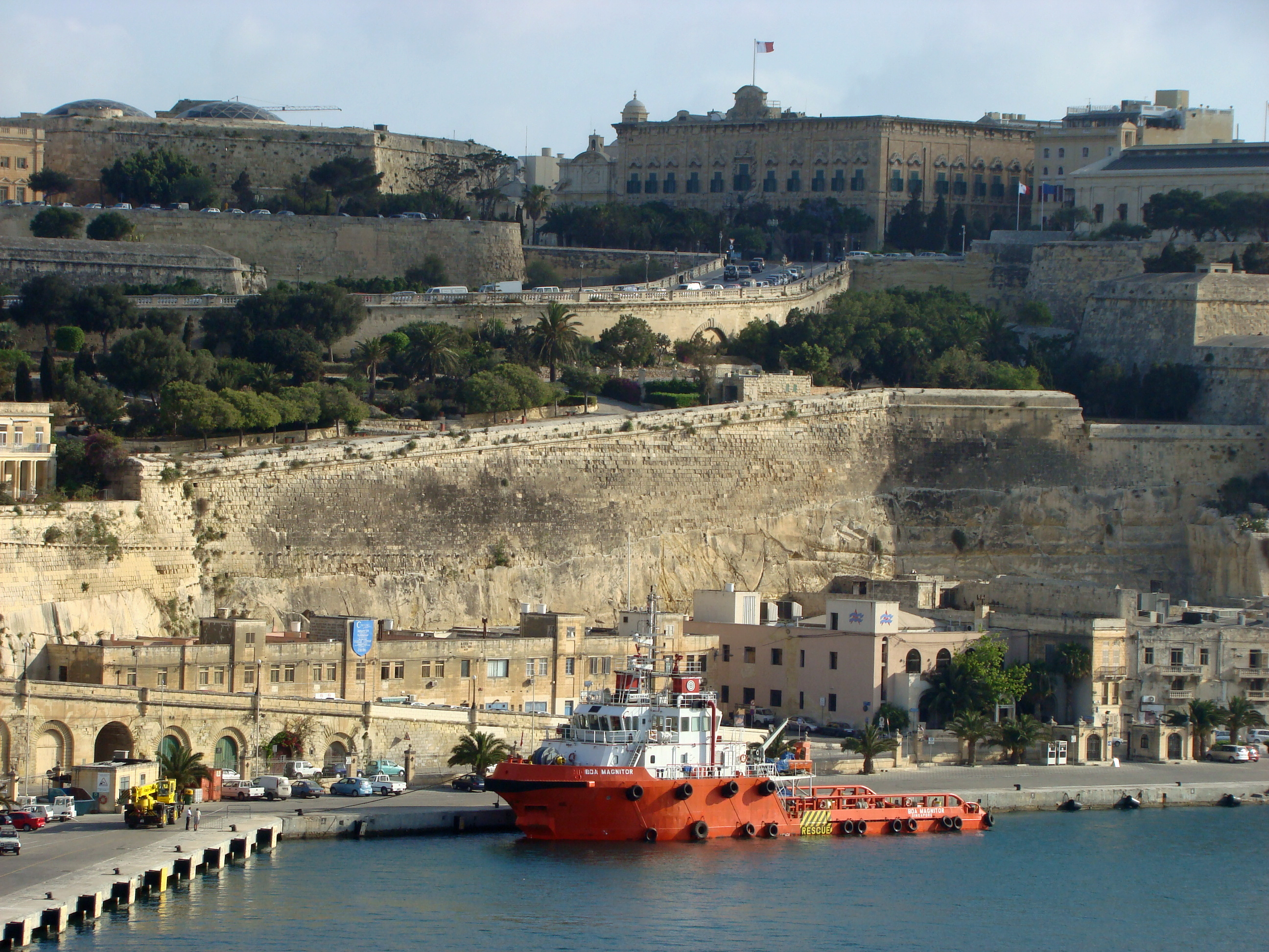 Left half of the image: Floriana, right half of the image: Valletta with the Governmental Palace